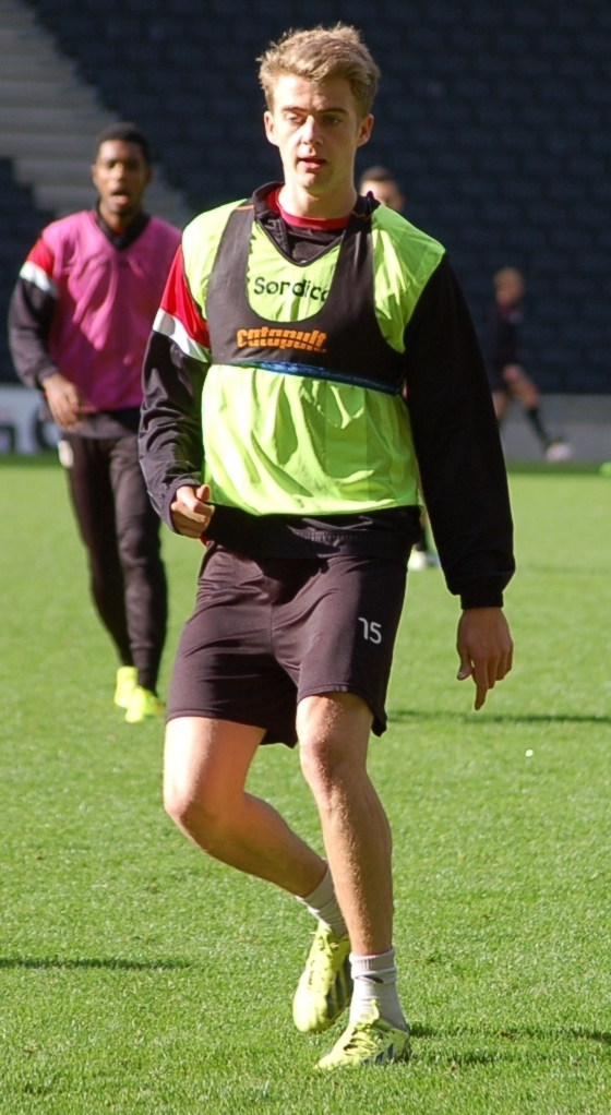 Patrick Bamford during MK Dons open training on 29 October 2013.